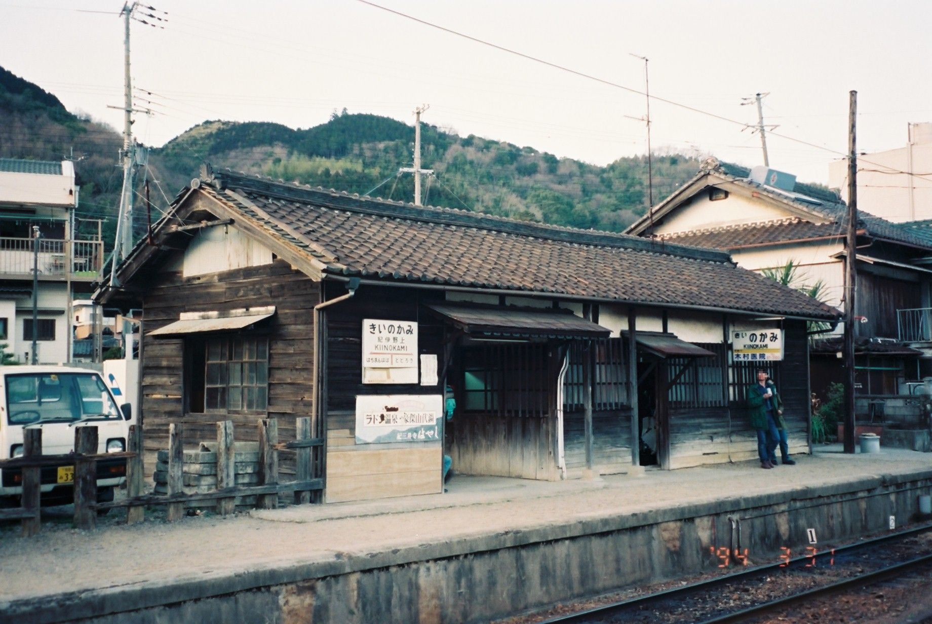 Nokami Electric Railway Kii-Nokami Station. It was taken at 1994/03/31.